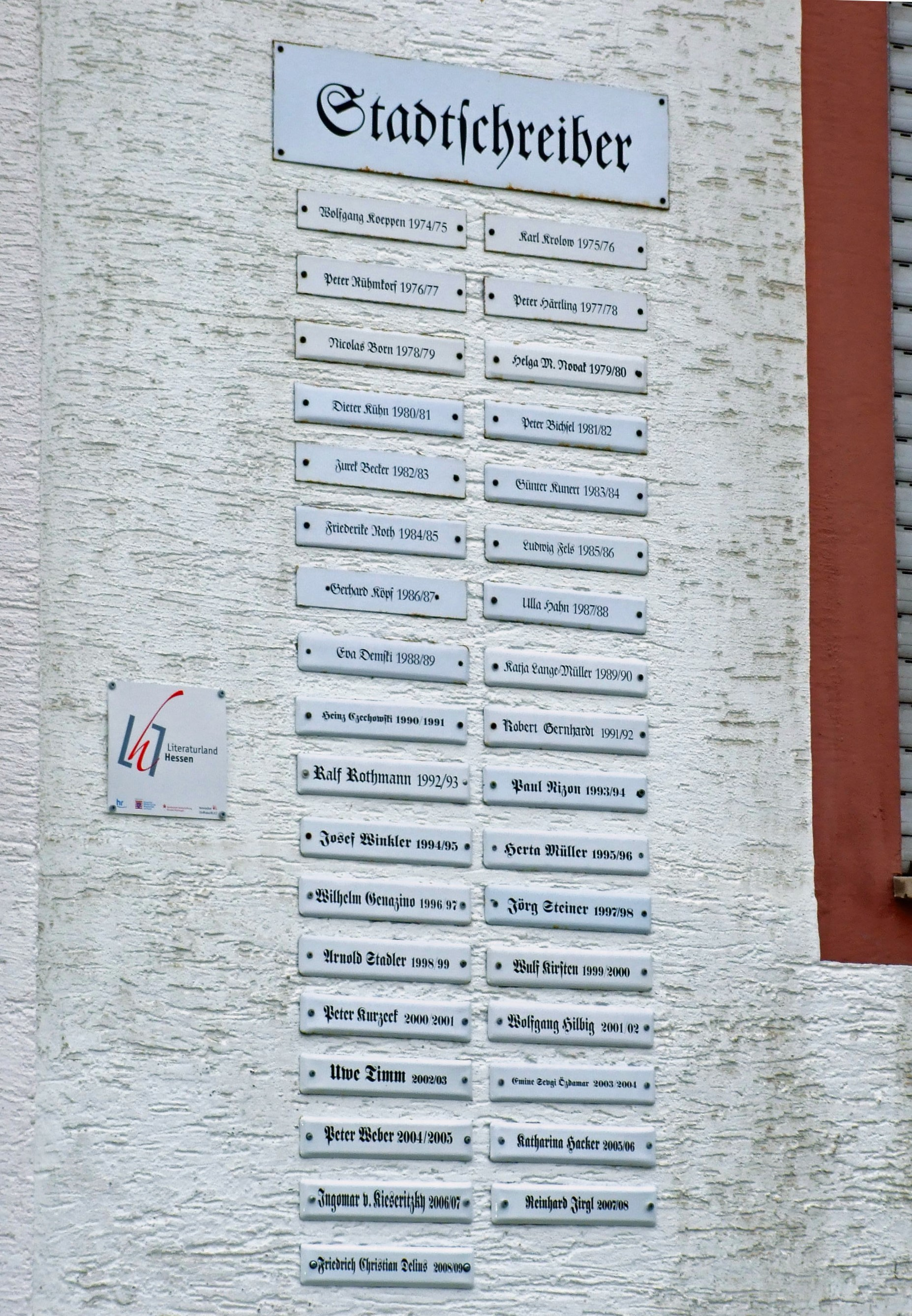 Signboards with names of the Stadtschreiber von Bergen since 1974, outside the Stadtschreiberhaus in Frankfurt Bergen-Enkheim (2008)